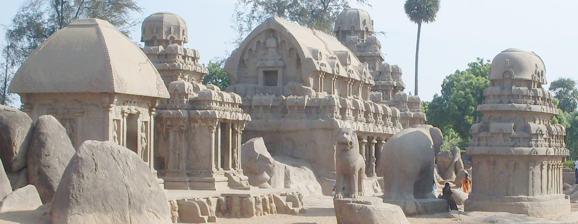 Images of Pandava Ratham